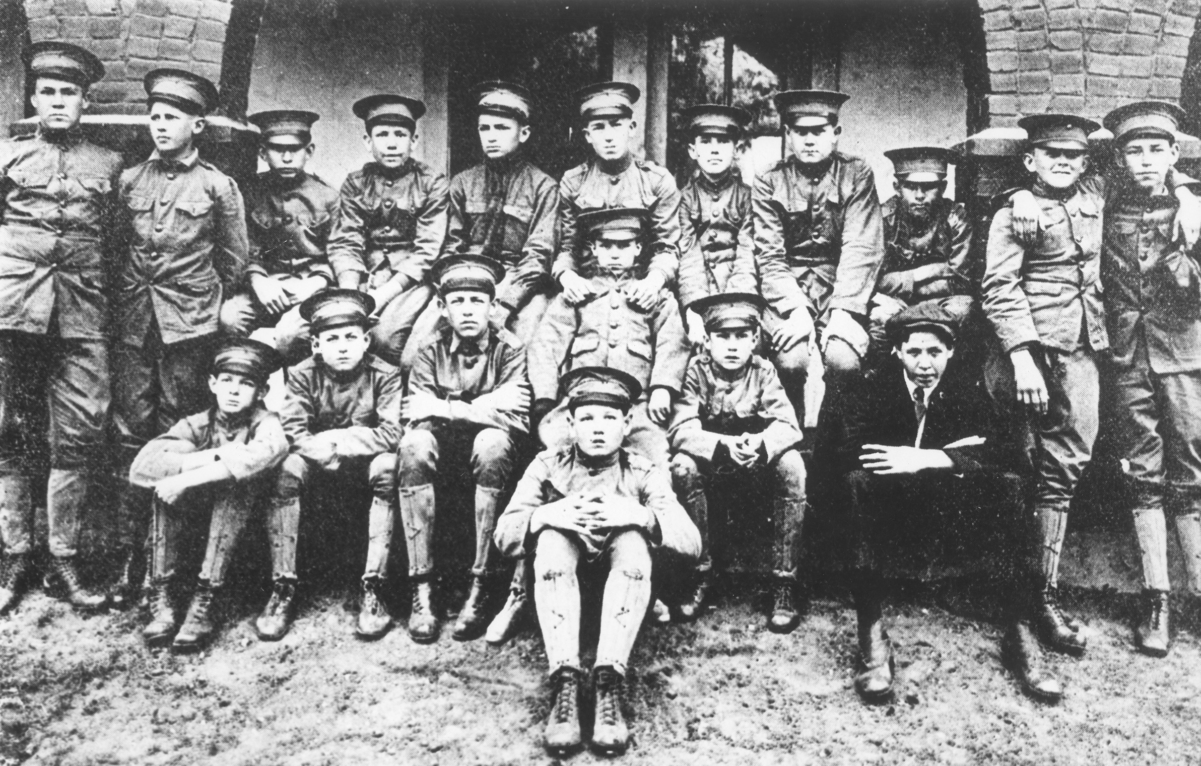 Arlington Training School Jolly Junior Literary Society, no date.